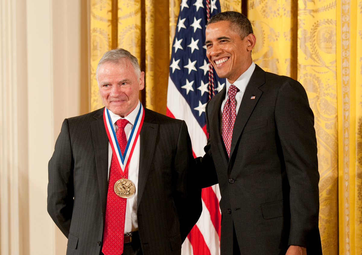 Genomics pioneer Dr. Leroy Hood receiving the 2011 National Medal of Science from President Obama.